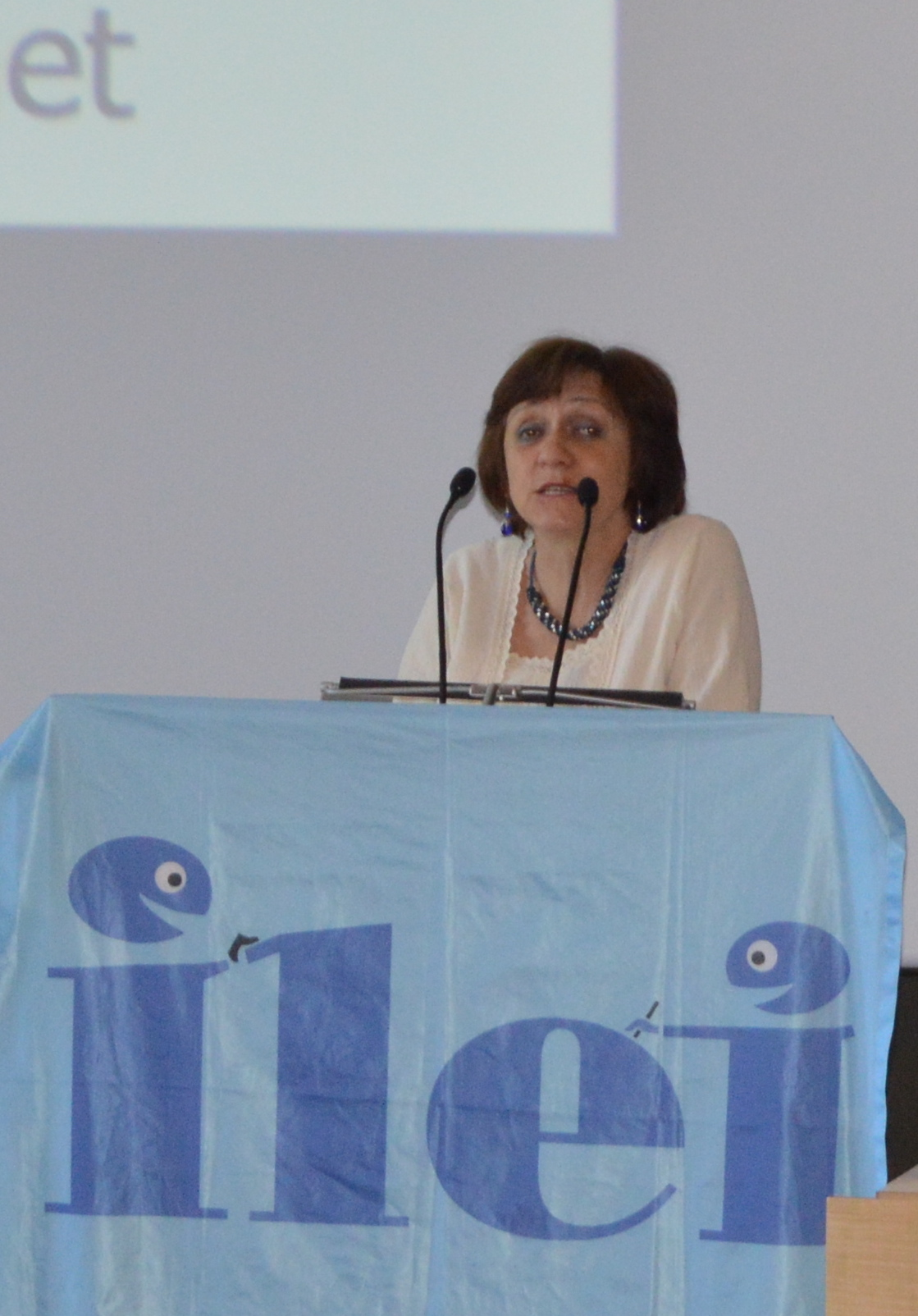 P-ro D-ro Ilona Koutny speaks during the third international conference on Esperanto teachting, canton of Neuchatel, SwitzerlandEsperanto: P-ro D-ro Ilona Koutny parolas dum la tria konferenco pri Esperanto-instruado, Neŭŝatelo, Svislando